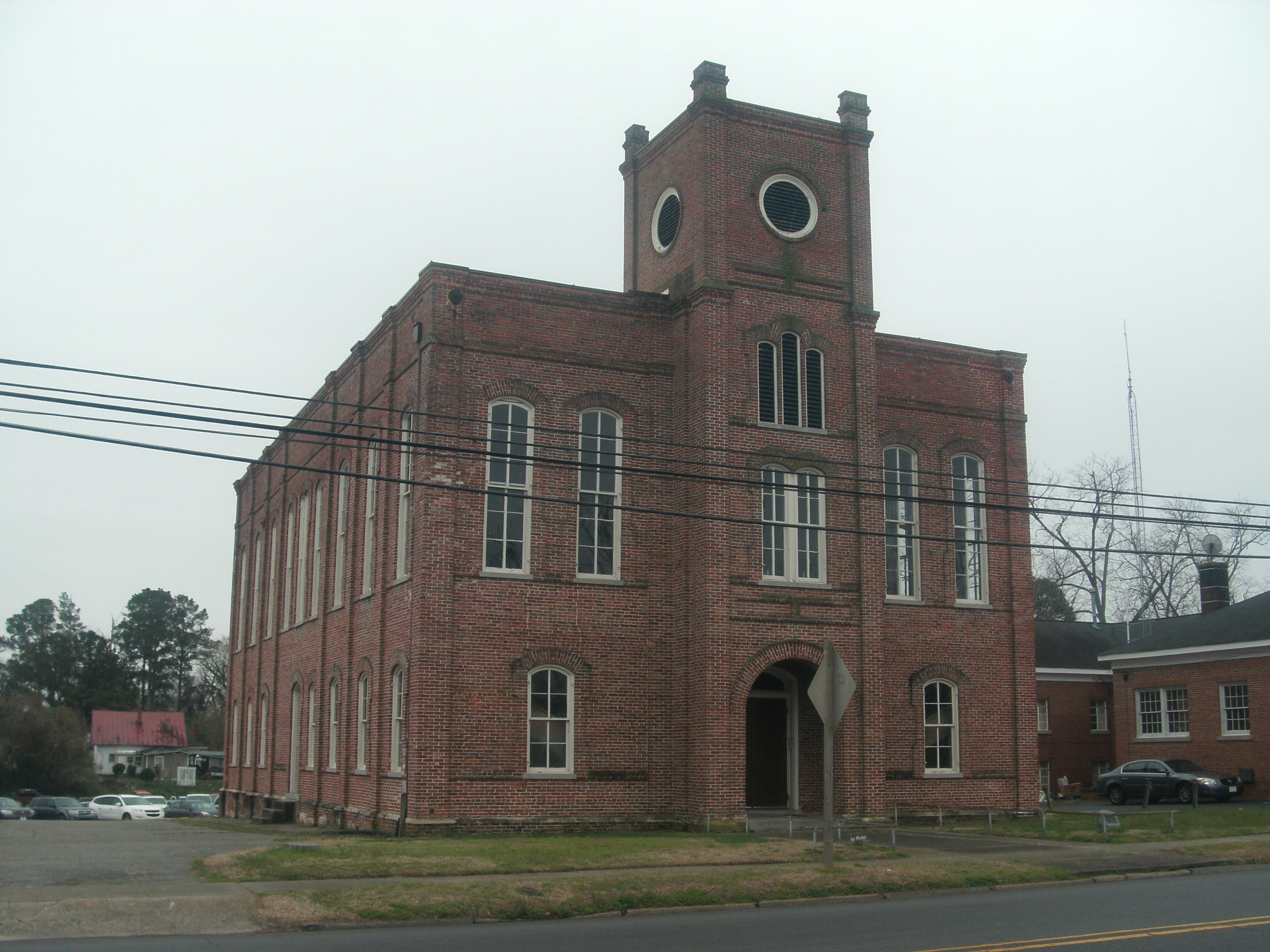 Williamston, North Carolina, March, 2015 GEDSC DIGITAL CAMERA